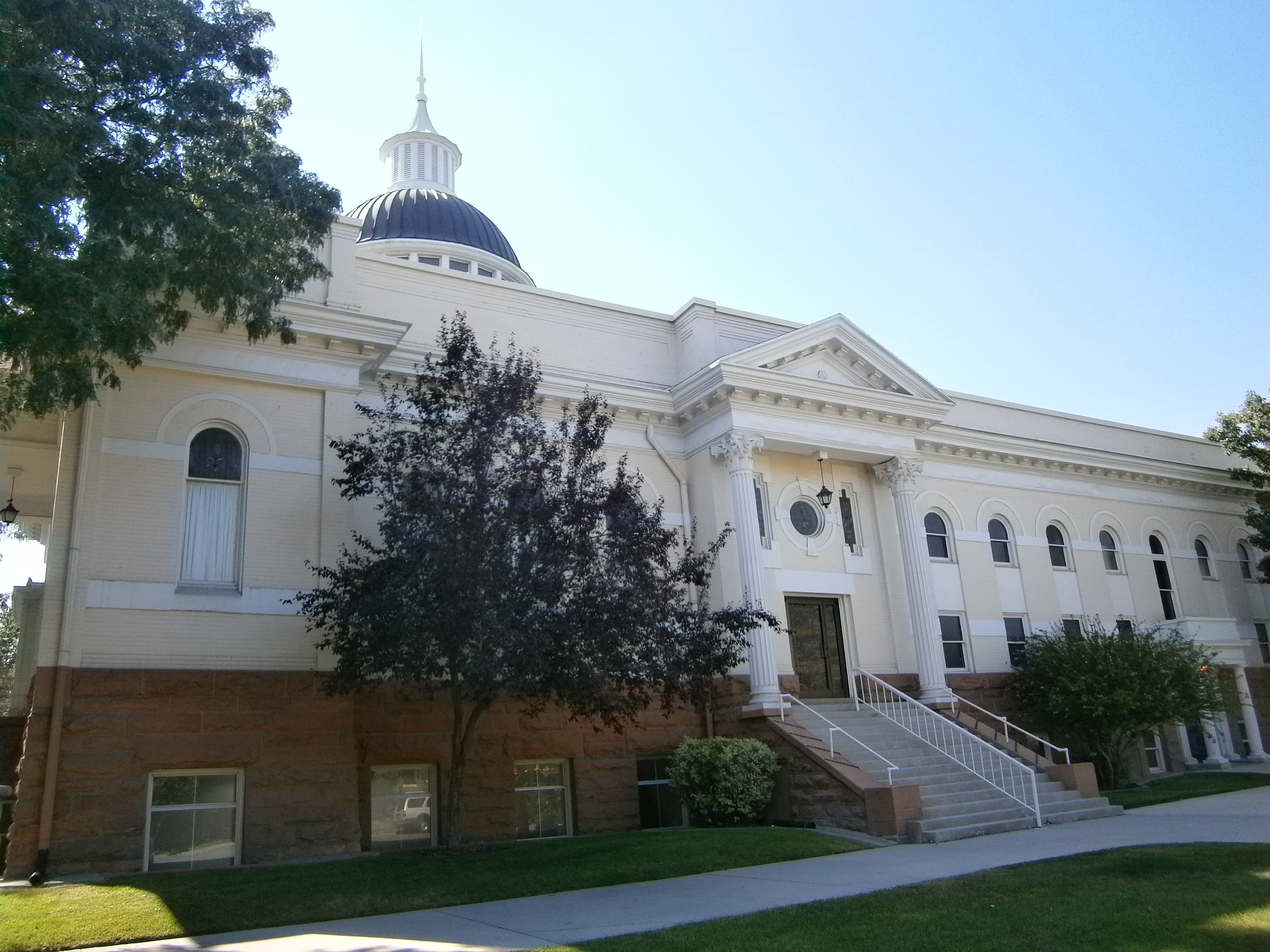 The Forest Dale Ward Chapel, at 739 East Ashton Avenue, Salt Lake City, Utah, United States, is a contributing property in the Forest Dale Historic District.